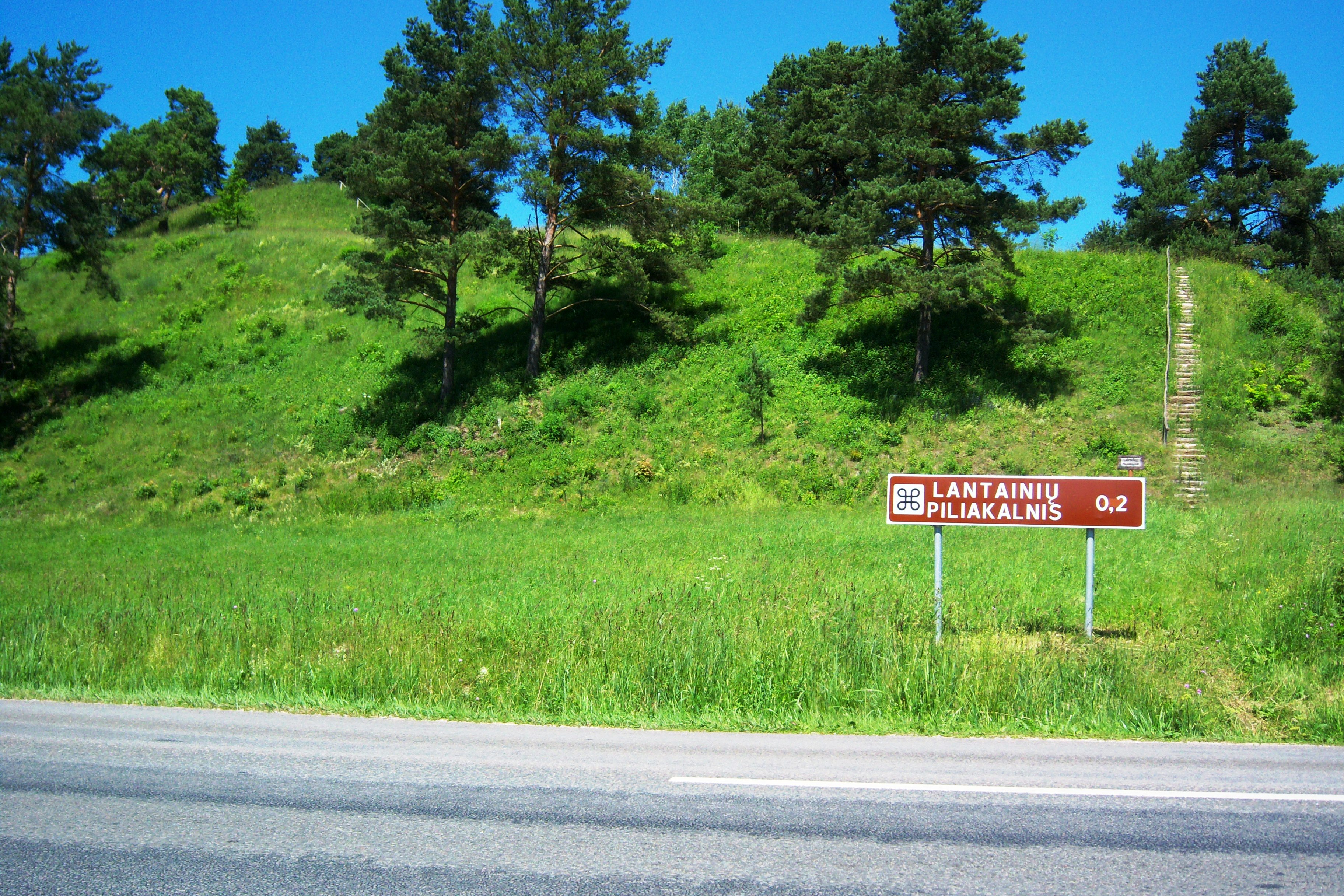 Lentainių (Lantainių) hillfort by the road KK232, Kaunas district, Lithuania